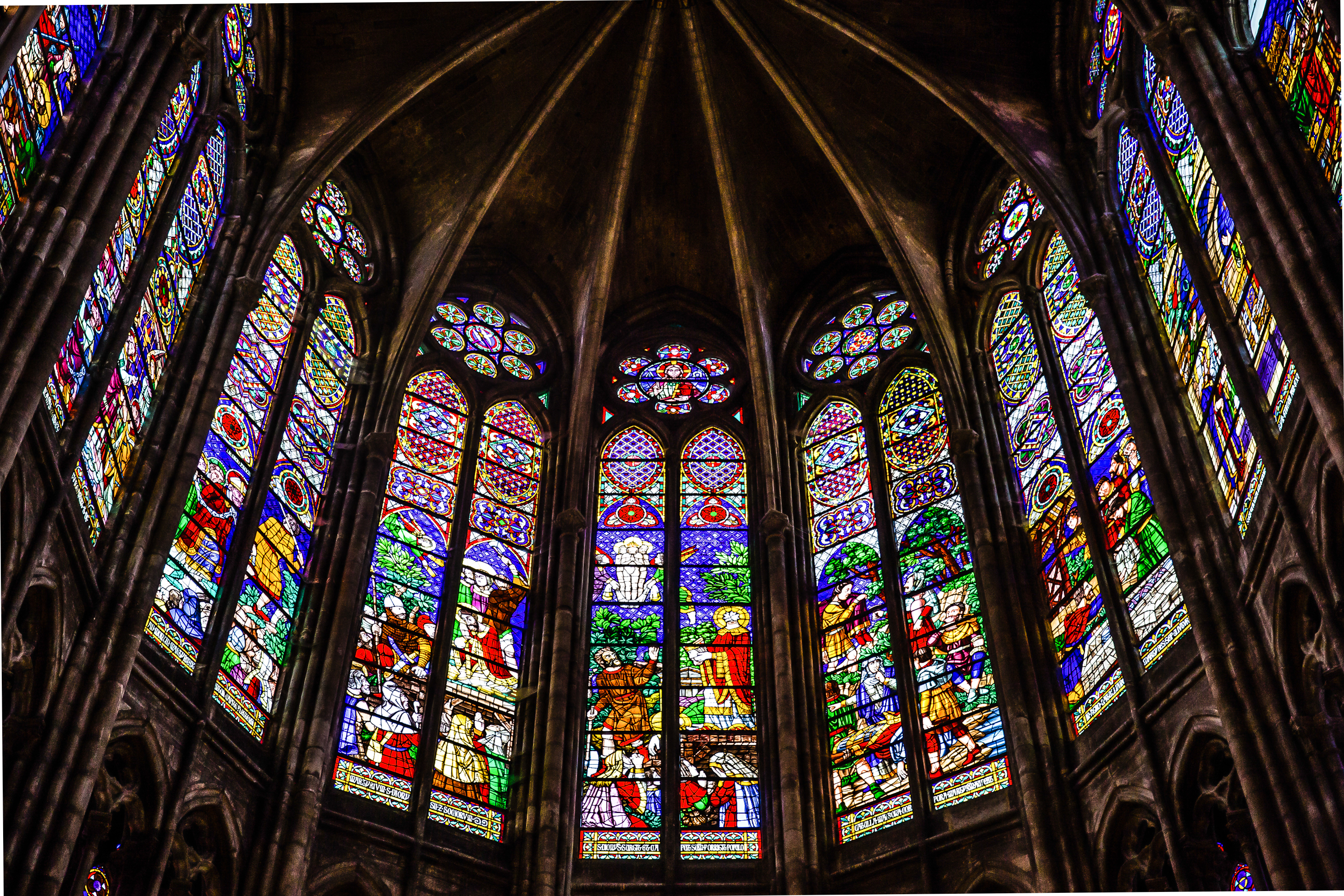 Inside view of stained glass, St. Denis Cathedral, St. Denis, France, upper choir